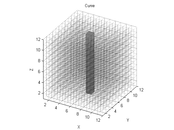 A 3D window straddling a line-like feature of a 3D image.